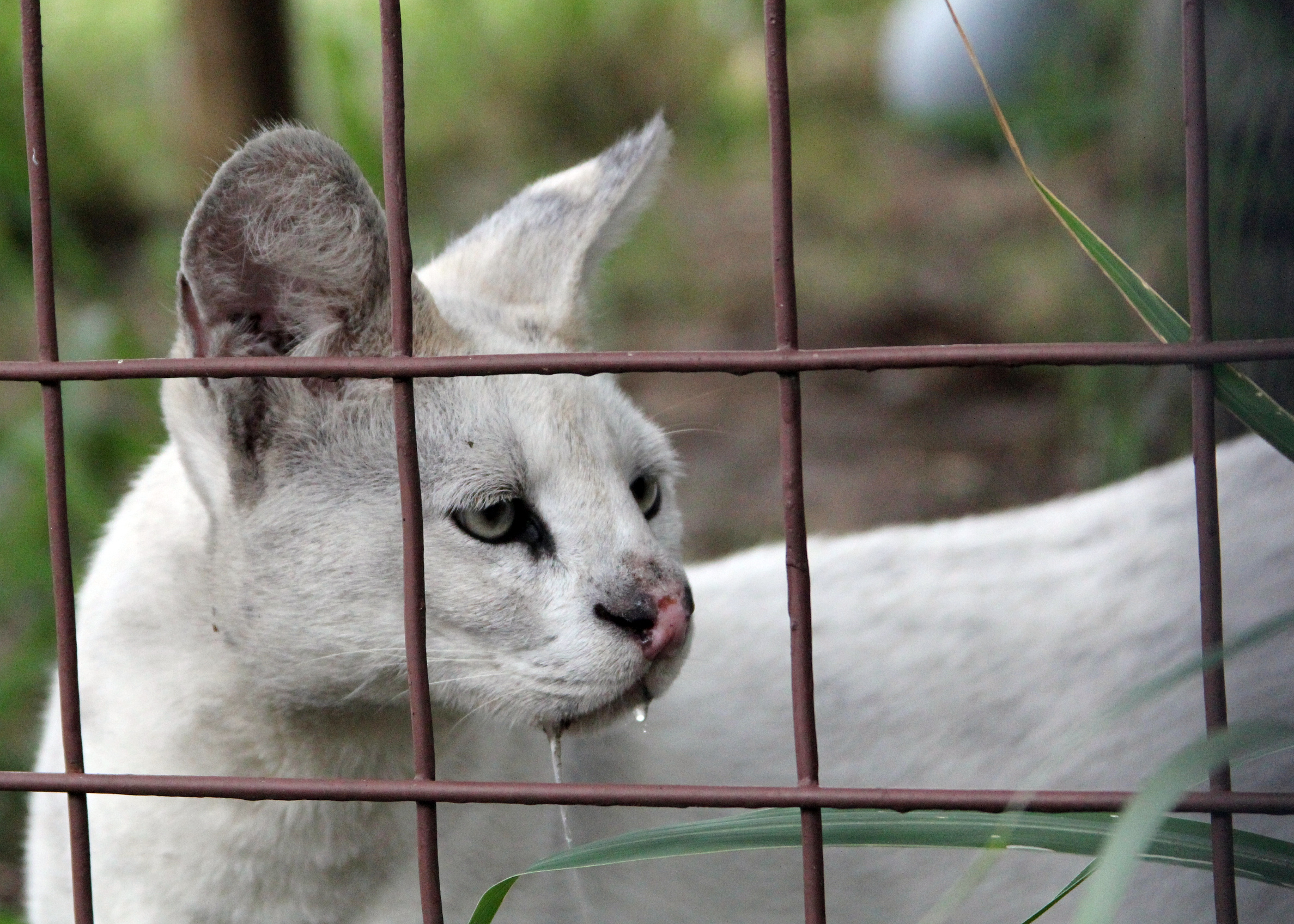 A rare white serval (Leptailurus serval) at Big Cat Rescue in Tampa, FL.